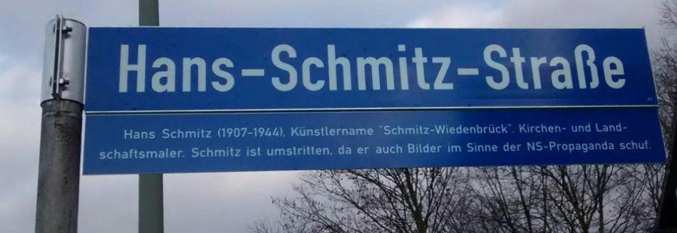 Hans Schmitz Street in Rheda-Wiedenbrueck, Germany, December 2019